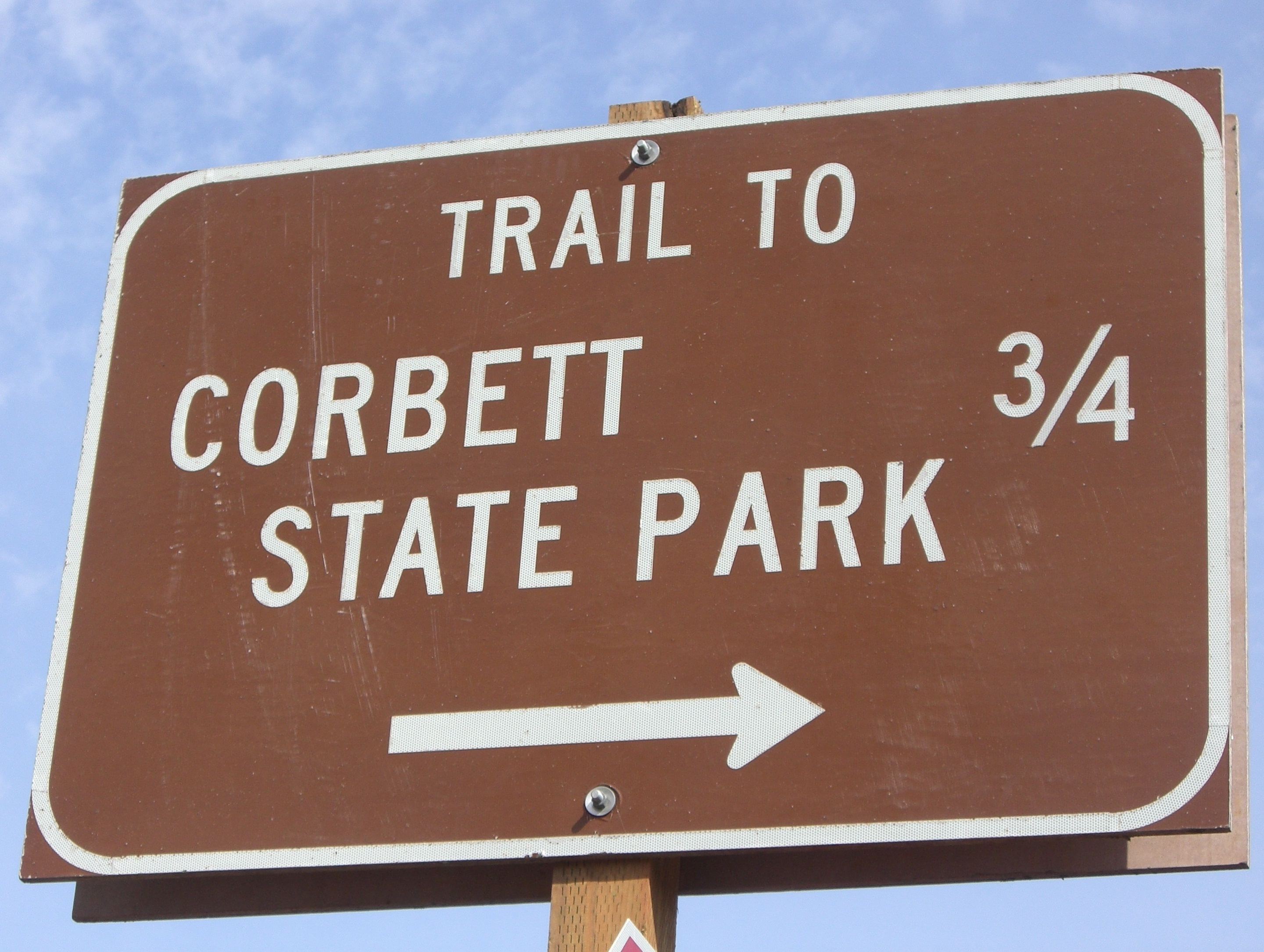 Sign pointing to Corbett State Park trailhead in central Oregon